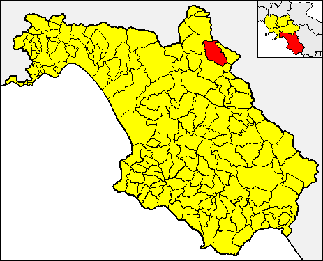 Locator map of the municipality of San Gregorio Magno (red) within the Province of Salerno